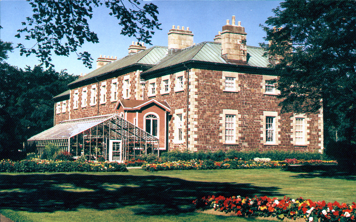 Government House, St. John's, Newfoundland